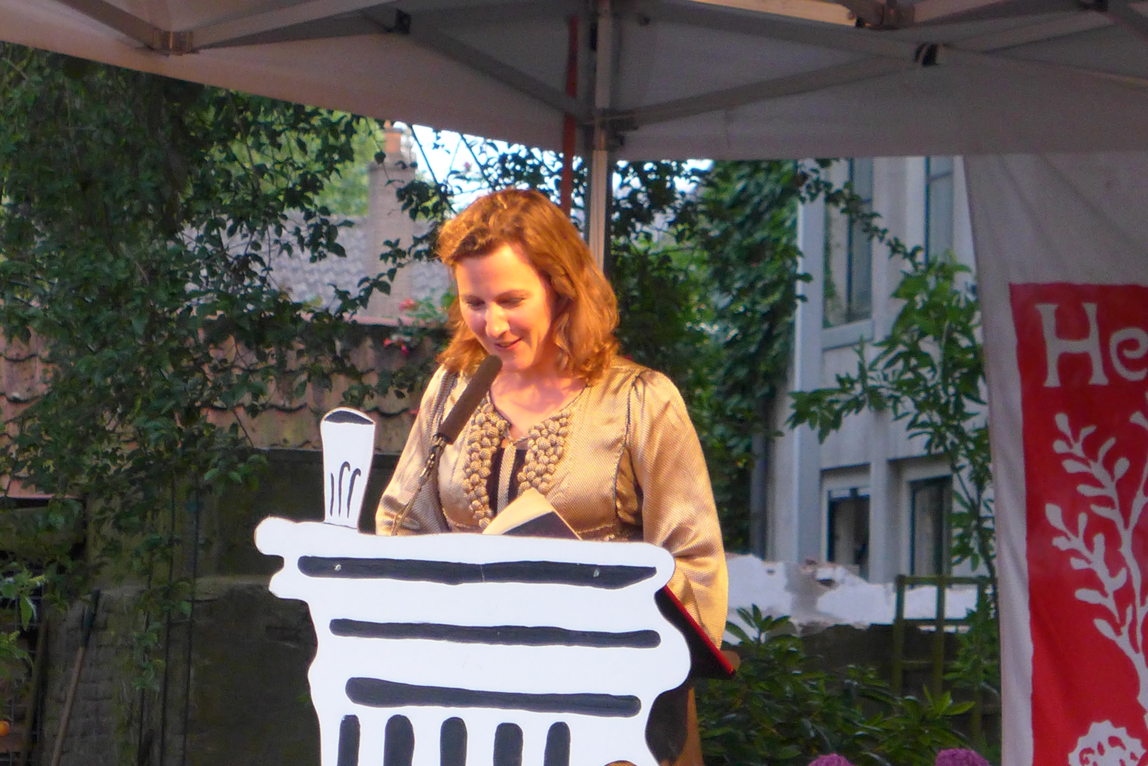 De Nederlandse dichteres Ester Naomi Perquin tijdens haar optreden op het poëziefestival 'Het Tuinfeest' in Deventer op 1 augustus 2015.